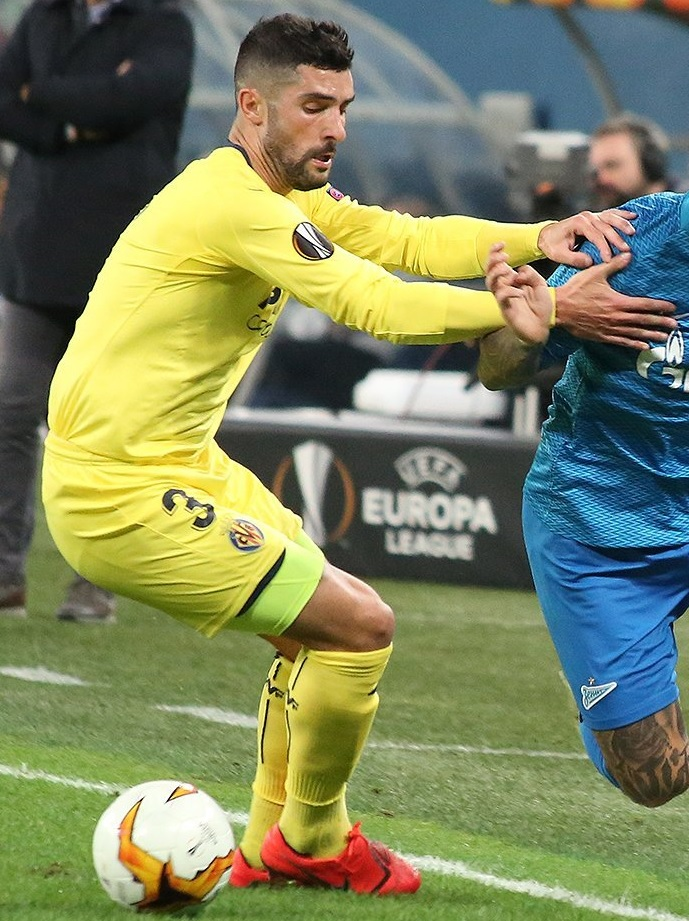 Álvaro González Soberón with Villarreal CF in an Europa League game against FC Zenit Saint Petersburg.